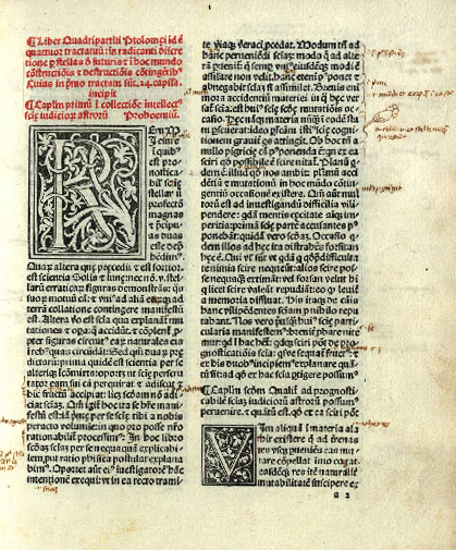 15th century Latin reproduction of the first edition of the Tetrabiblos, translated by Plato of Tivoli. Published in Venice, Erhard Ratdolt, 1484